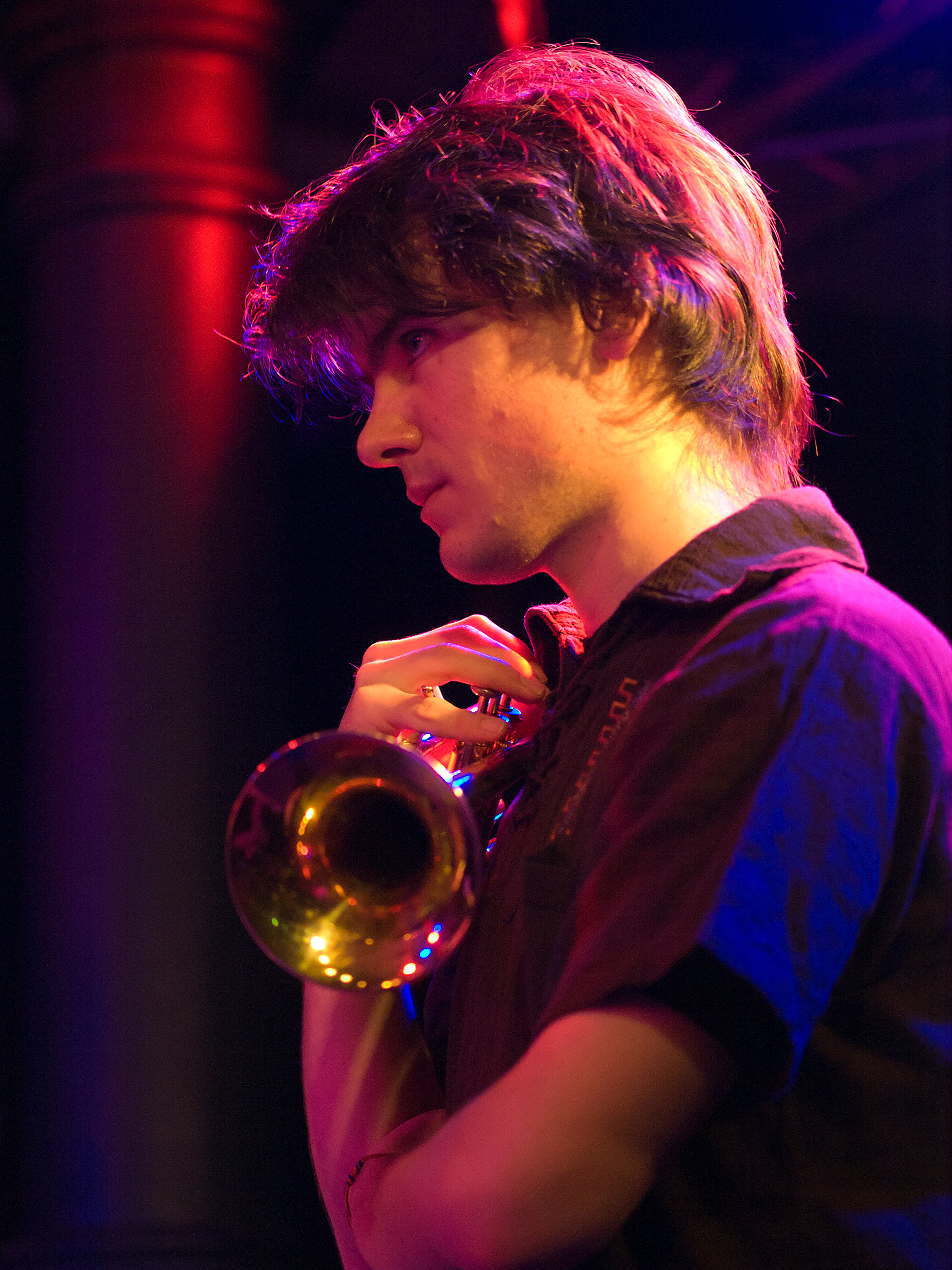 Magnus Schriefl, Jazz trumpeter; Picture taken in Jazz Club Unterfahrt, Munich/Bavaria